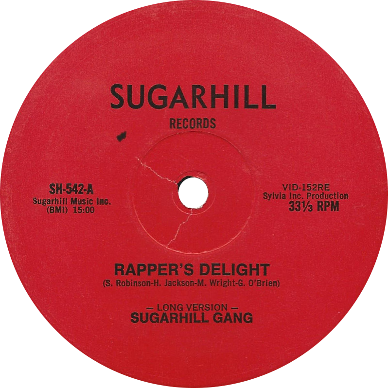 One of side-A labels for one of early pressings of the US 12-inch vinyl single release of "Rapper's Delight" by Sugarhill Gang. This pressing doesn't credit "Good Times" by Chic. According to sources, this is one of earlier pressings before the lawsuit for copyright infringement when the band Sugarhill Gang sampled Chic's song. After the lawsuit was settled, Chic's song was credited in later pressings of single releases, especially in 1979.